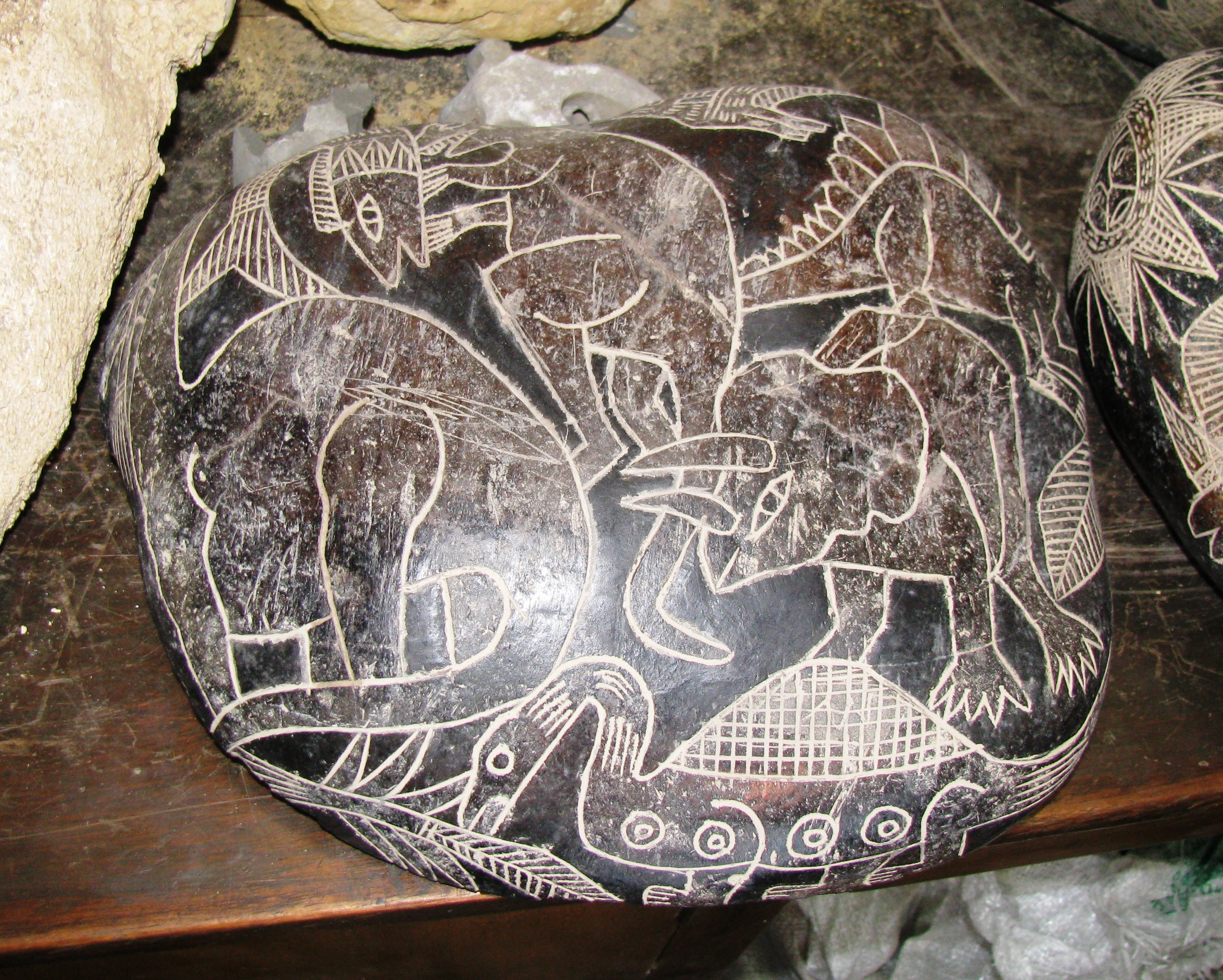 Ica stone depicting dinosaurs